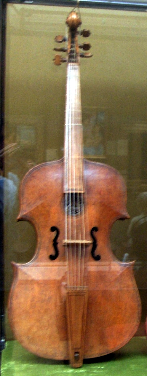 Bass viol by Gasparo da Salo, late 16th century, on display at the Ashmolean Museum, WA1939.22